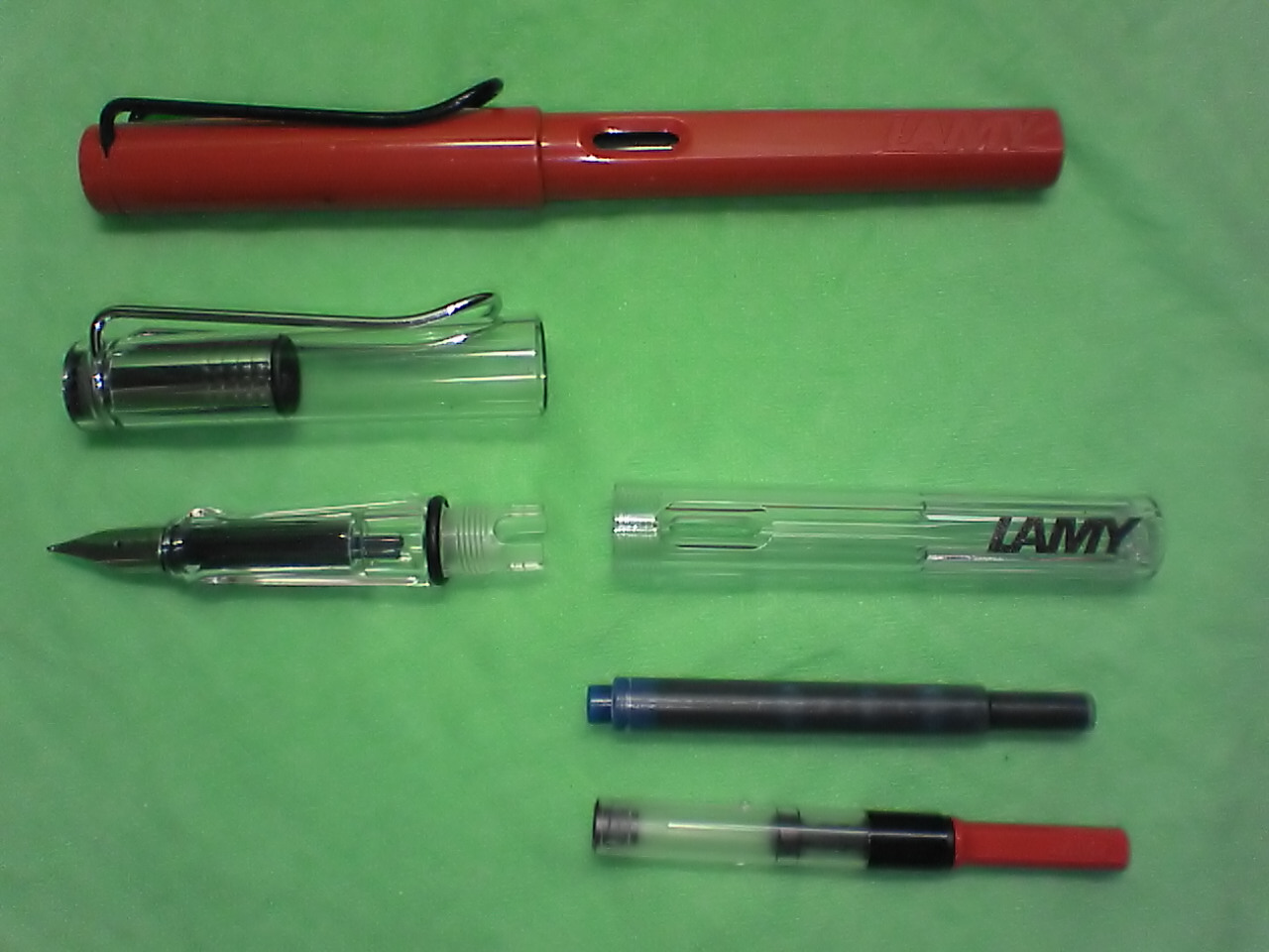 LAMY Safari (top) in red and Vista (bottom) fountain pens. Under the LAMY Vista transparent demonstrator pen a LAMY T 10 ink cartridge (1.15 ml ink capacity) and a LAMY Z 24 piston operated converter (0.7 ml ink capacity) for using bottled fountain pen ink. The plastic body and cap of these pens are made of Acrylonitrile Butadiene Styrene (ABS).